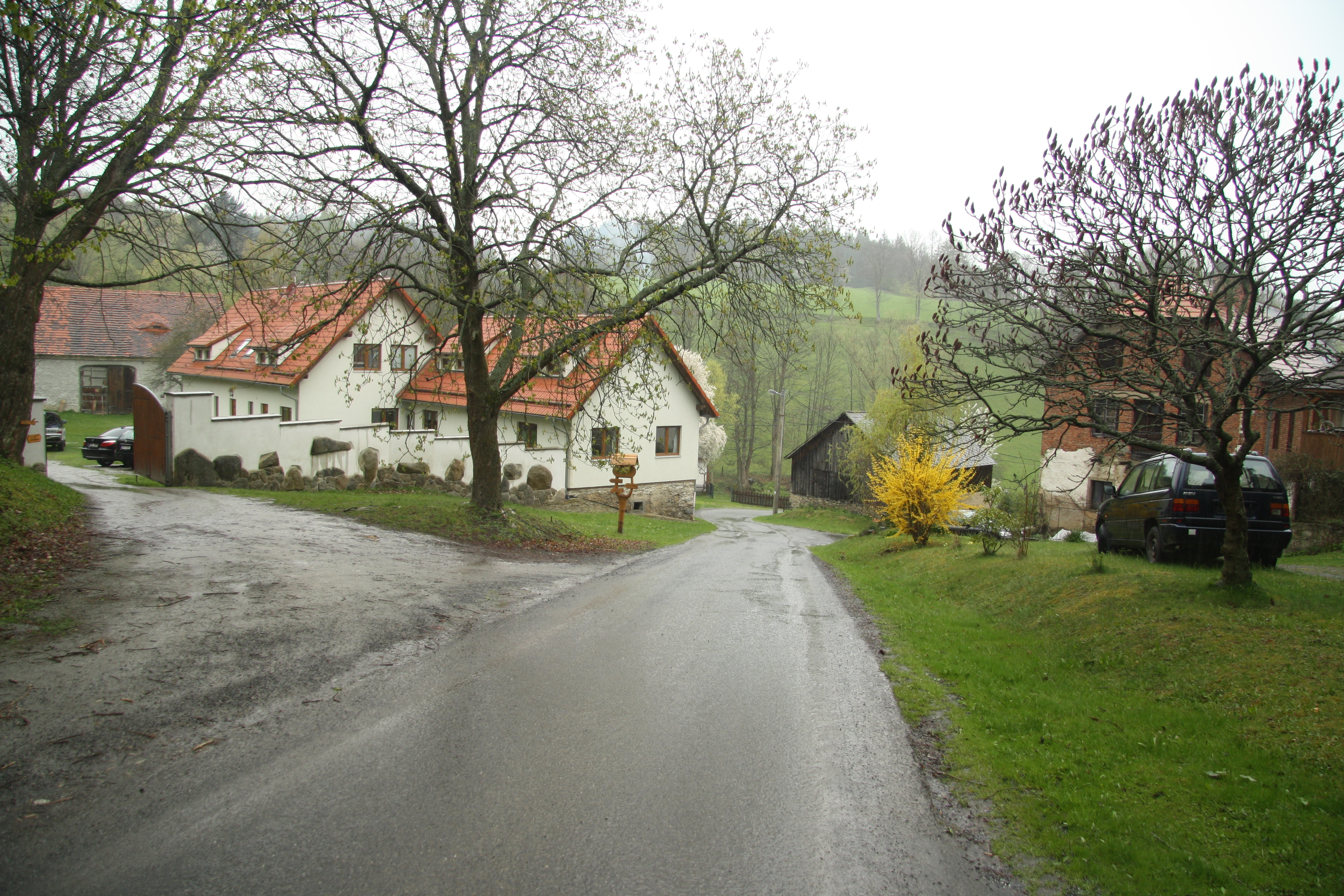 Center of Lešišov, Mokrosuky, Klatovy District.